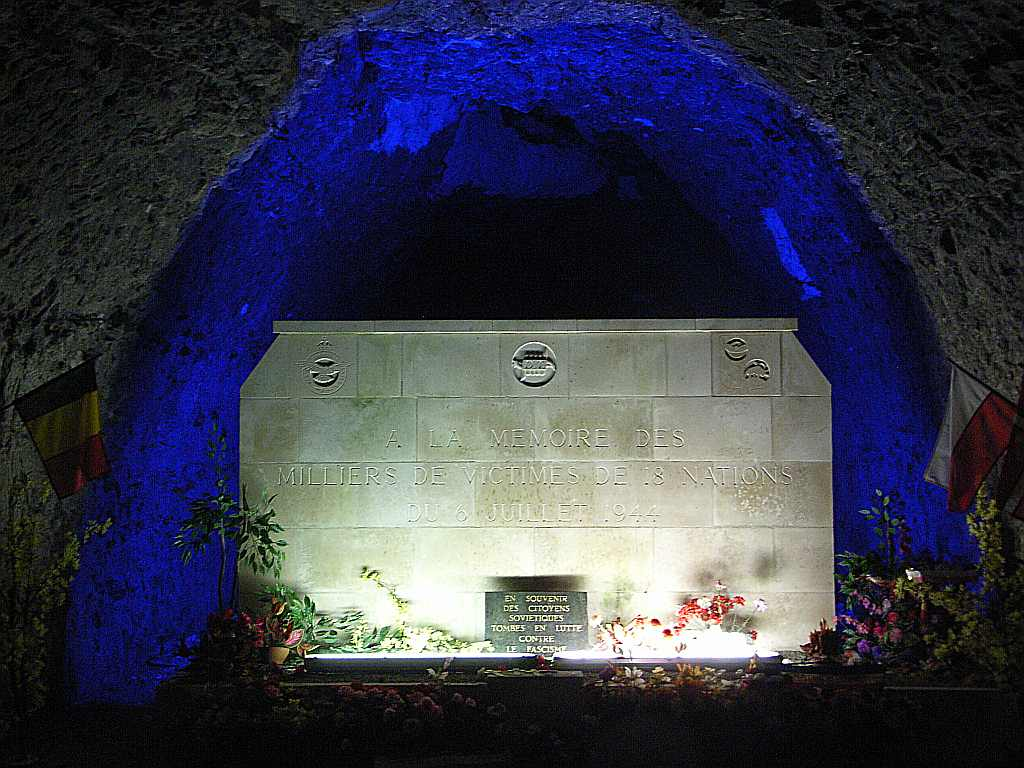 memorial inside the V3-Fortress Mimoyesques (France)